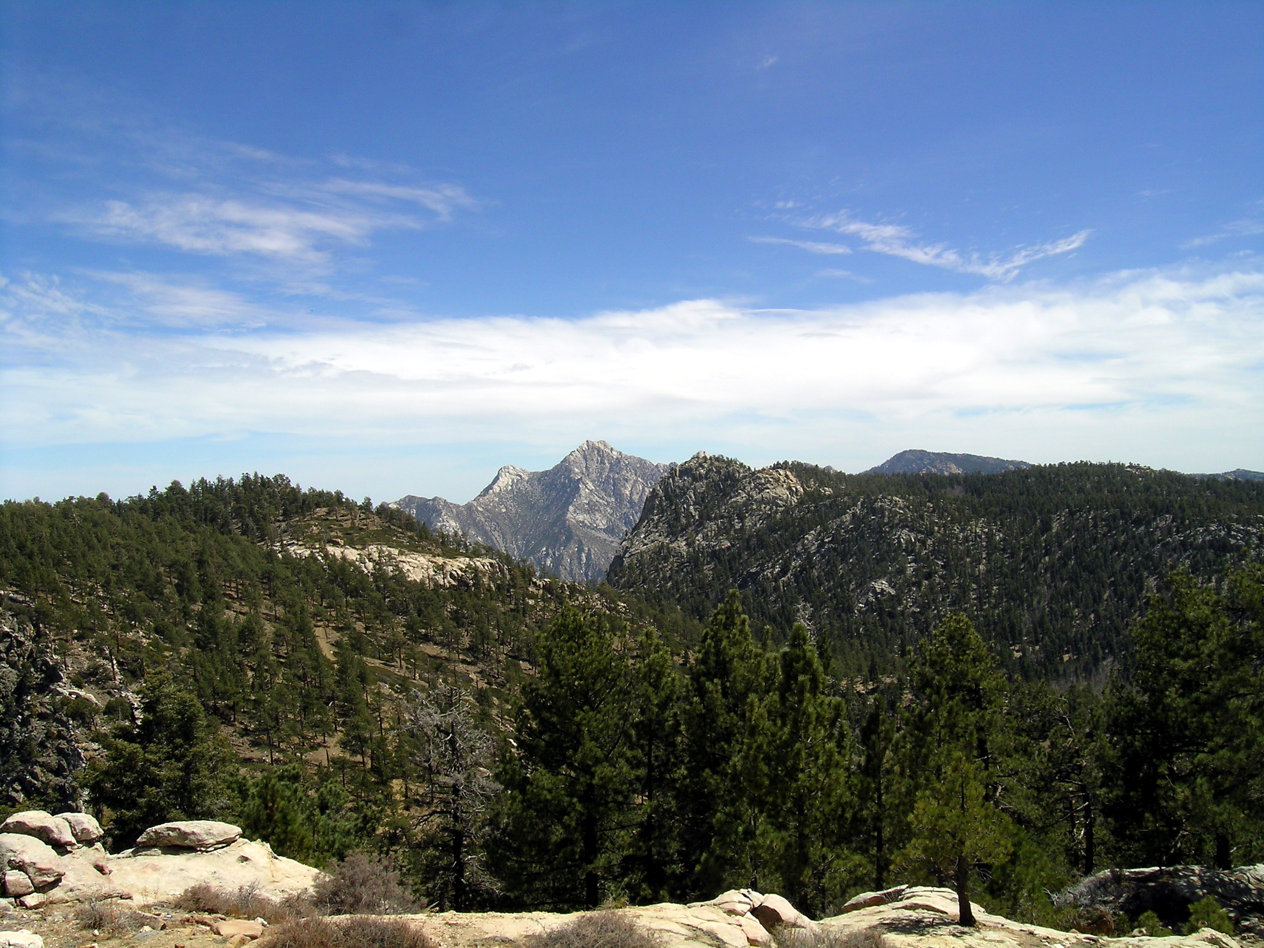 Picacho del Diablo (Devil's Peak) — in the Sierra San Pedro Mártir mountain range of Baja California State, Mexico. Highest point in B.C. state, at 3,078 metres (10,098 ft) in elevation. The Sierra San Pedro Mártir are a range of the Template:Peninsular Ranges System. Seen from the National Astronomical Observatory of Mexico.